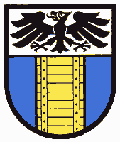 coat of arms city of Kandersteg (Switzerland)